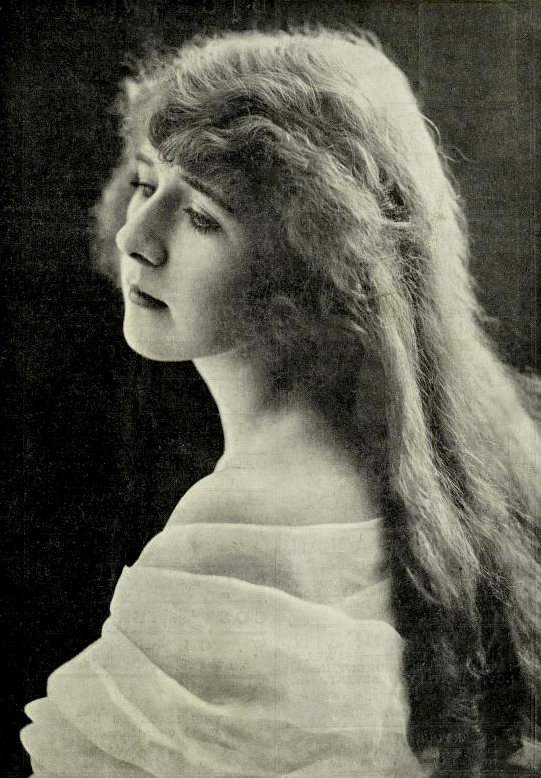 A young white woman, wrapped loosely in a light-colored fabric; the lighting of the photograph highlights her long hair, loose down her back.